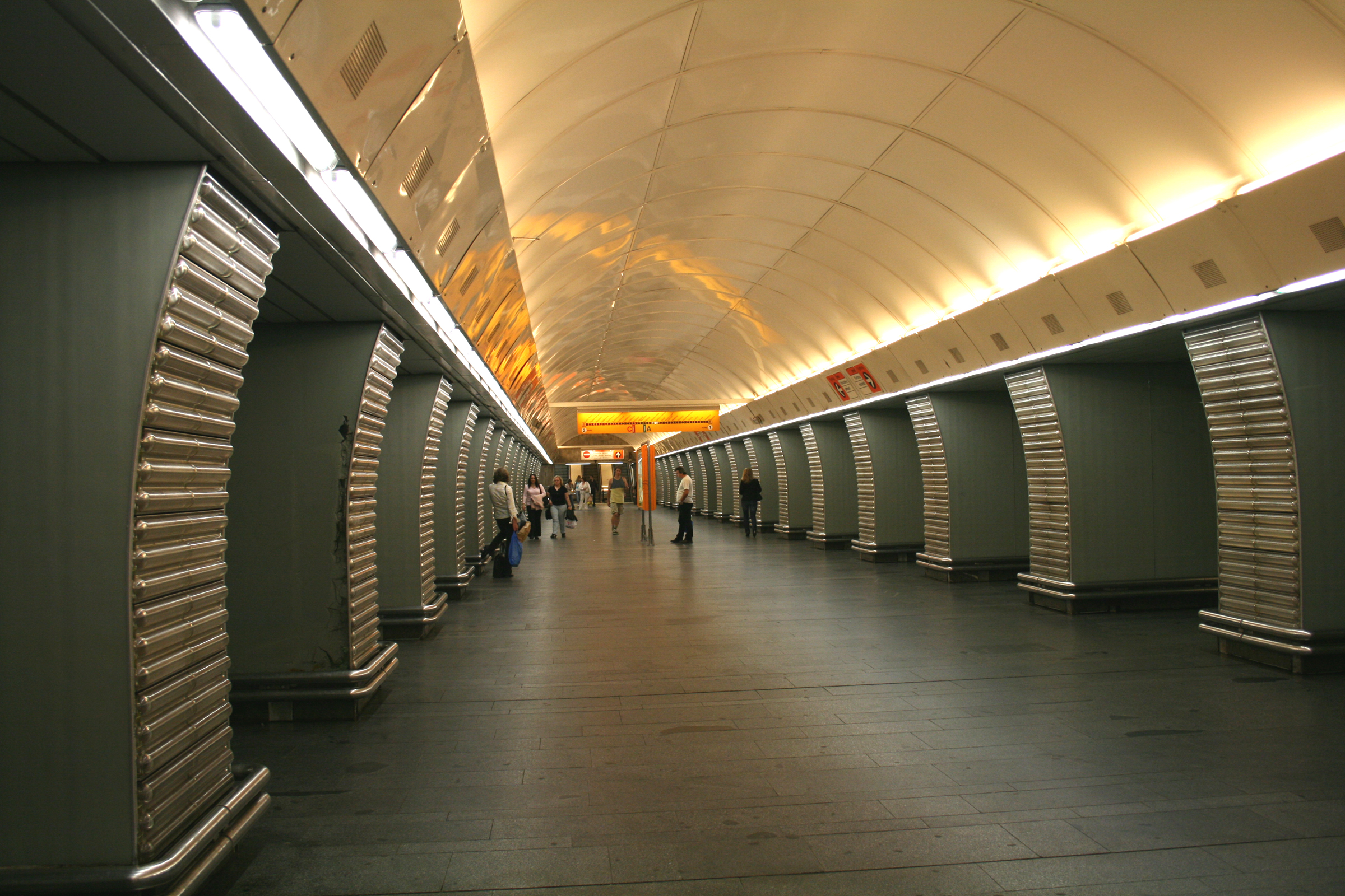 Prague metro station Karlovo Náměstí, Czech Republic